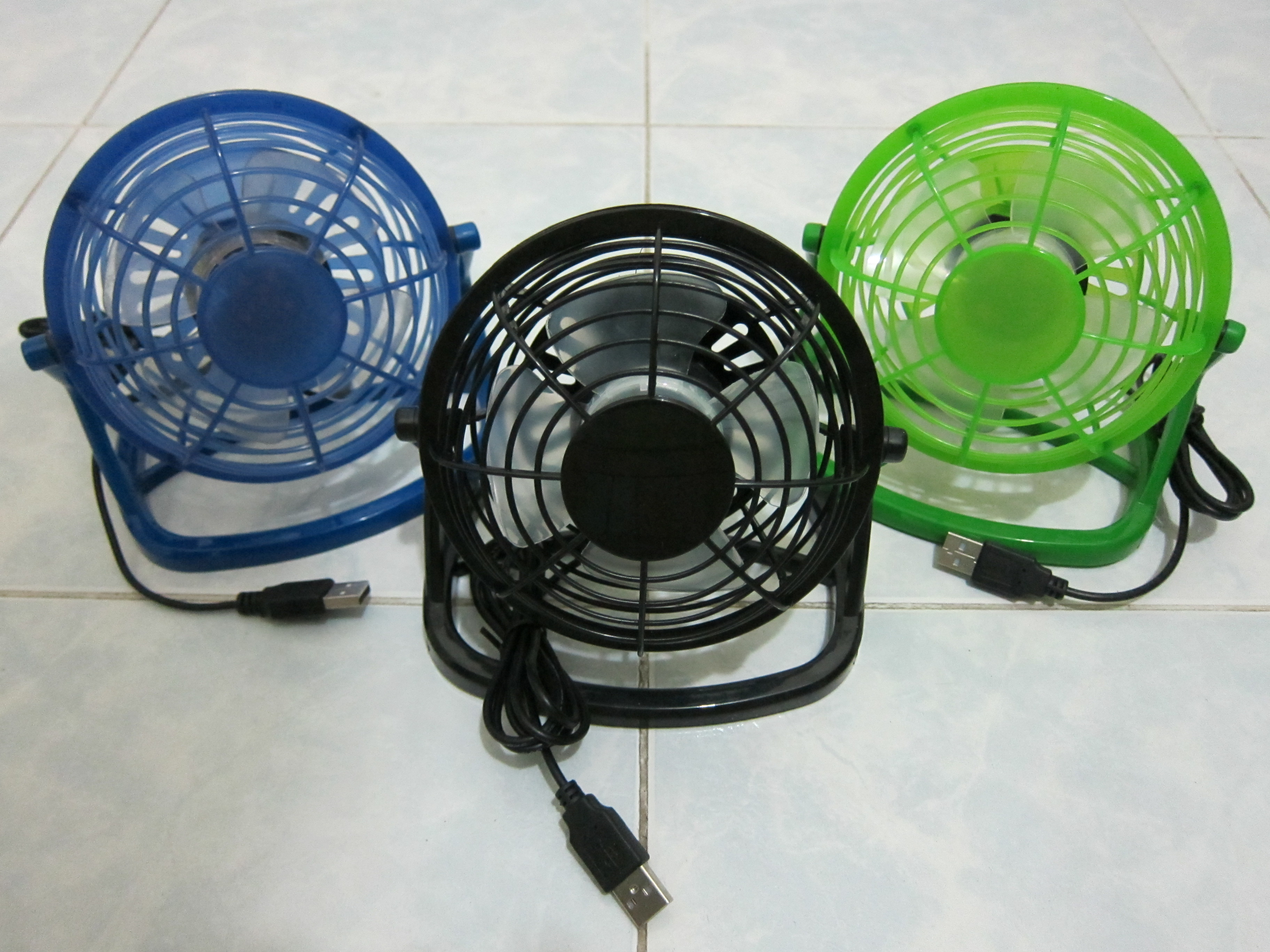 These USB fans are driven by Brushless DC electric motors.